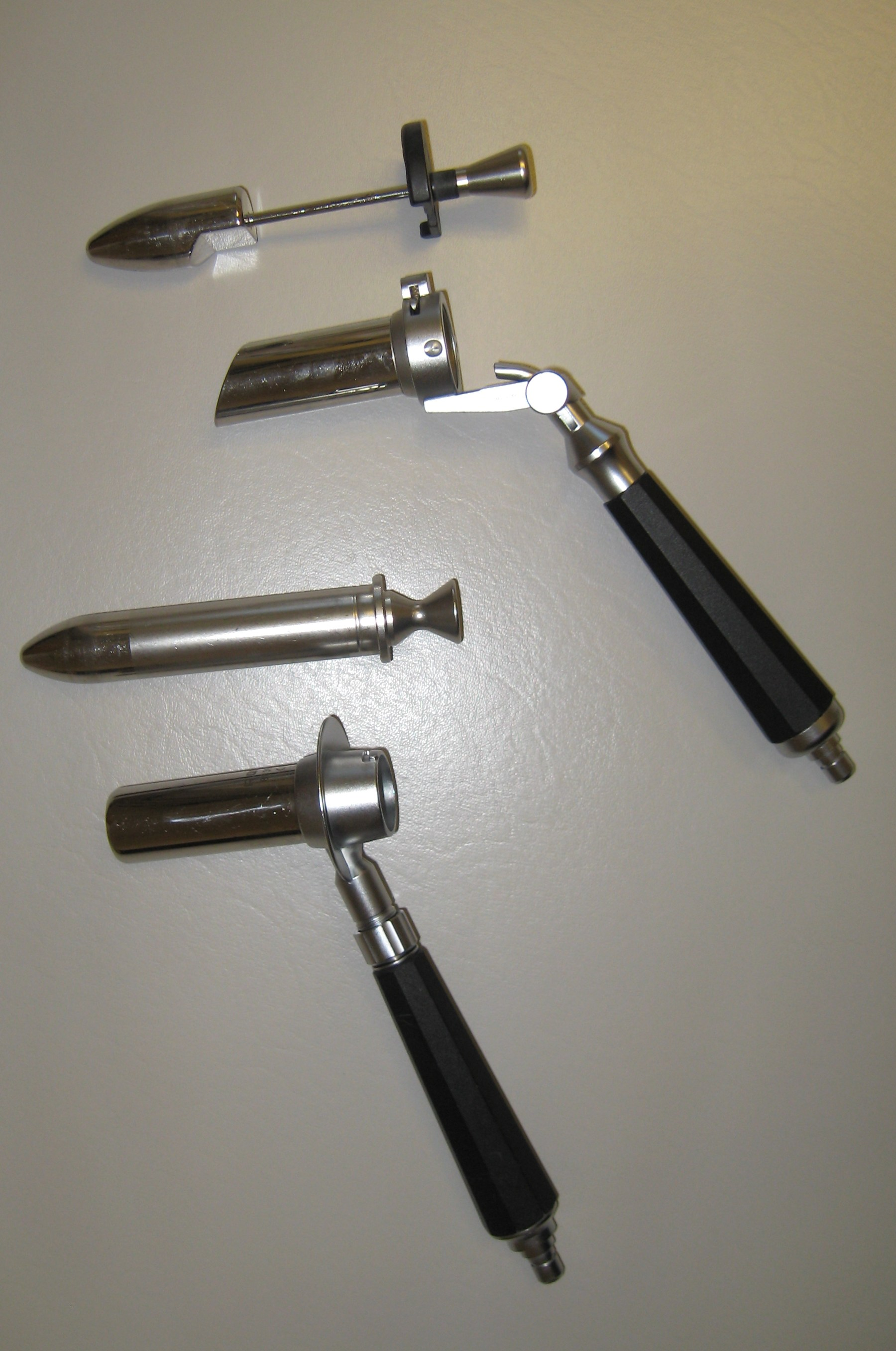 two proctoscops.